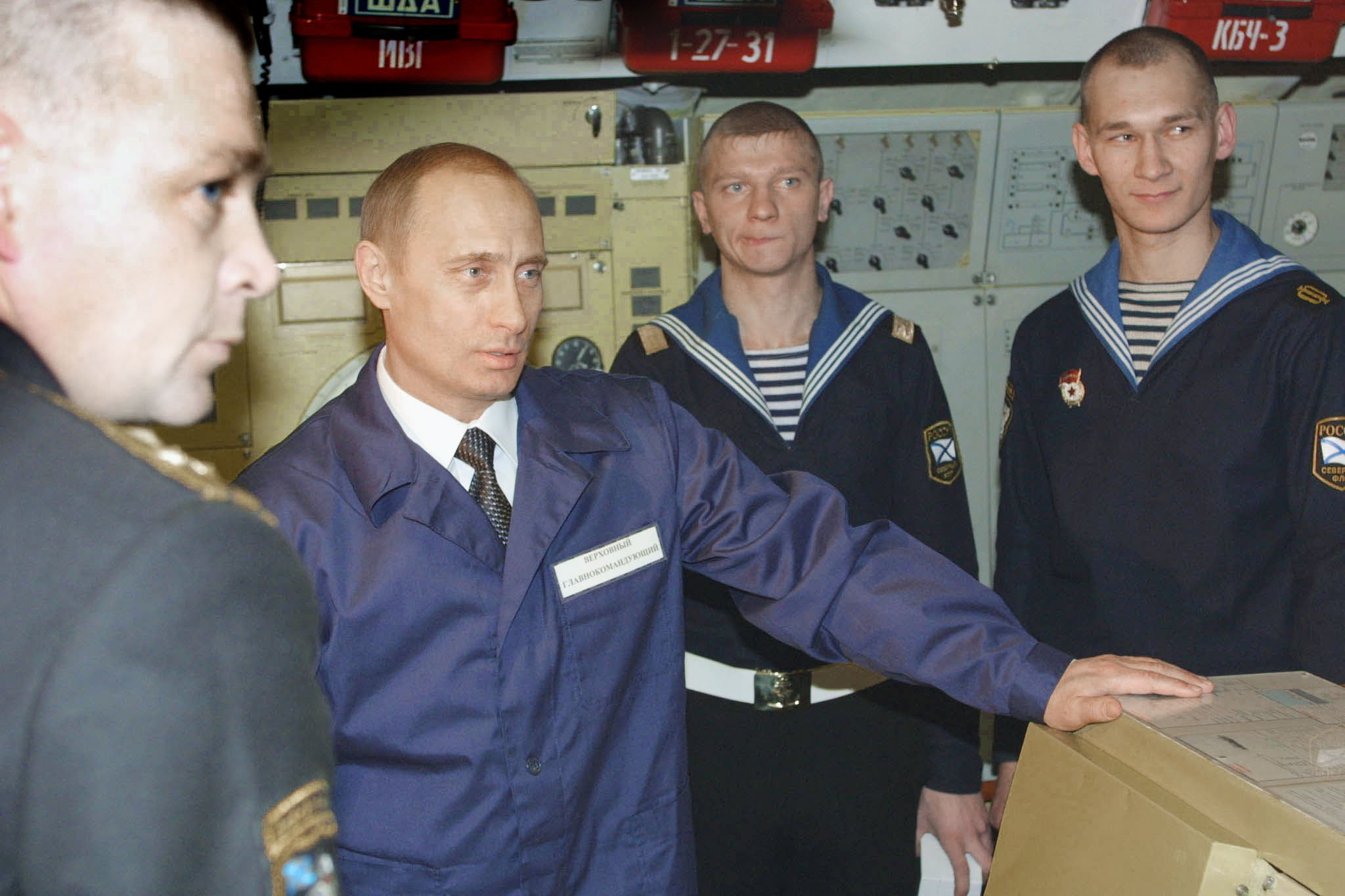 SEVERODVINSK. Russian Navy adopting new Gepard nuclear-powered submarine. President Putin inspecting submarine.